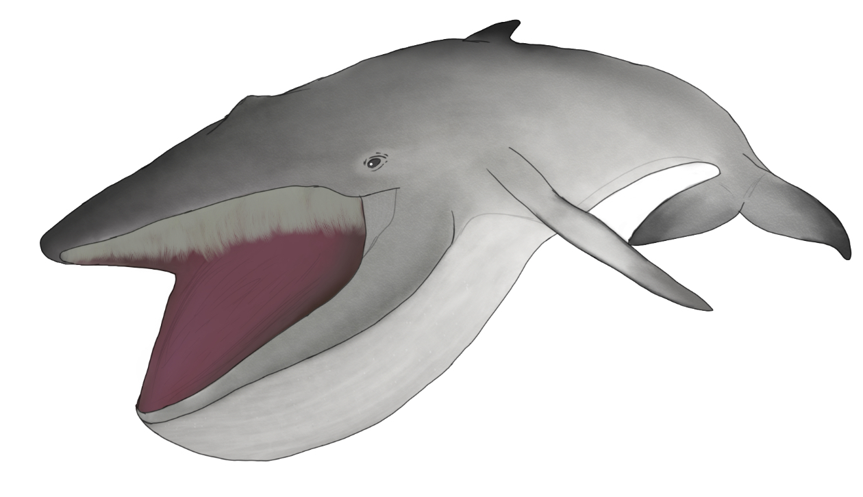 This is a reconstruction of the basal rorqual whale, A. liesselensis